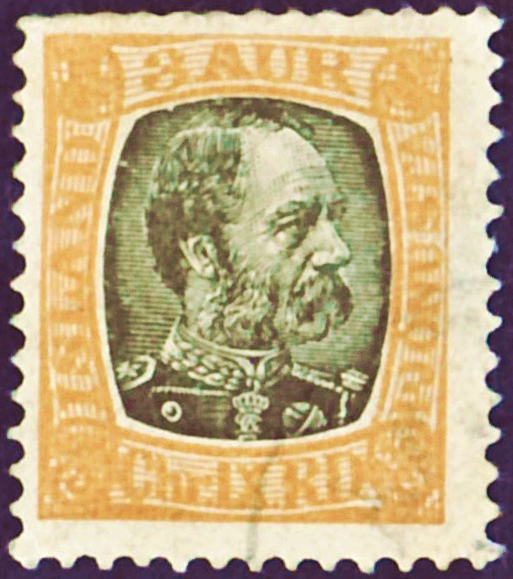 Stamp of Danish-Iceland; 1902; official stamp of the issue "King Chrtistian IX" of Denmark; right frame inscription "þJÓNUSTA"; postmarked Stamp: Michel: No. D17; Yvert & Tellier: No. S17; AFA: No. T17; Scott: No. O13 Color: yellow (orange) / (dark green) browm Watermark: Iceland, No. 2 (great crown) Nominal value: 2 AUR. (Aurar) Postage validity: from 24 November 1902 until 31 December 1921 Stamp picture size: 17.5 x 20.5 mm